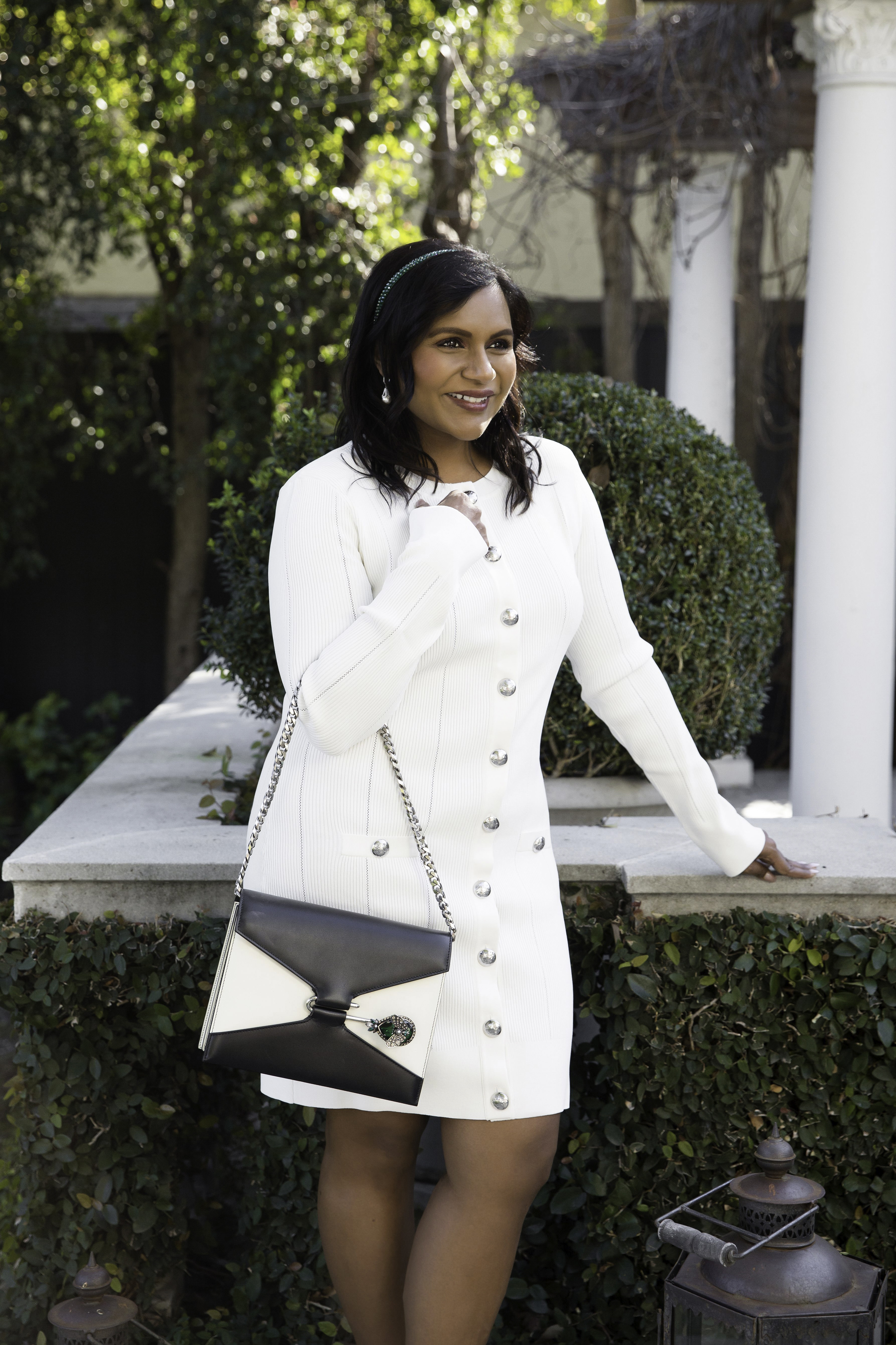 Mindy Kaling photographed at home in February 2020